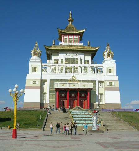 I took this photo during my visit to Elista, Republic of Kalmykia.